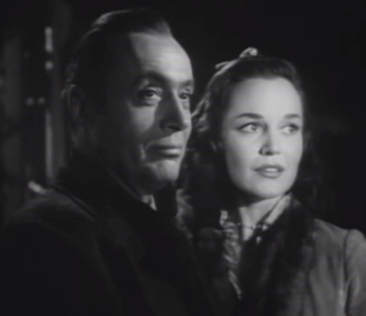 Charles Boyer & Dorothy Hart in the TV series Four Star Playhouse, episode Second Dawn (cropped screenshot)